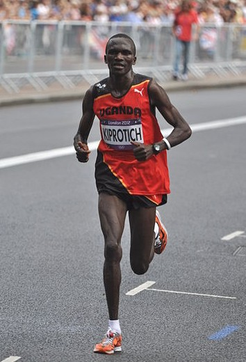 The men's marathon of the 2012 Summer Olympics in London, UK took place on an Olympic marathon street course on Sunday 12th August 2012 at 11:00. This was the final day of the 30th Olympic Games. The London 2012 marathon course is the standard Olympic distance of 26 miles 385 yards and consists of one short lap of approx 2.2 miles followed by three longer laps of 8 miles. The course began on The Mall and travelled past several of the most famous London landmarks. The start/finish line was near the Victoria Memorial. These photographs were taken at the Victoria Embankment. This featured several times on the looped course. The approximate location from the photographs is shown in the Google StreetView Link below. Stephen Kiprotich won in 2 hours, 8 minutes, 1 second as he pulled away from the Kenyan duo of Abel Kirui and Wilson Kiprotich Kipsang.